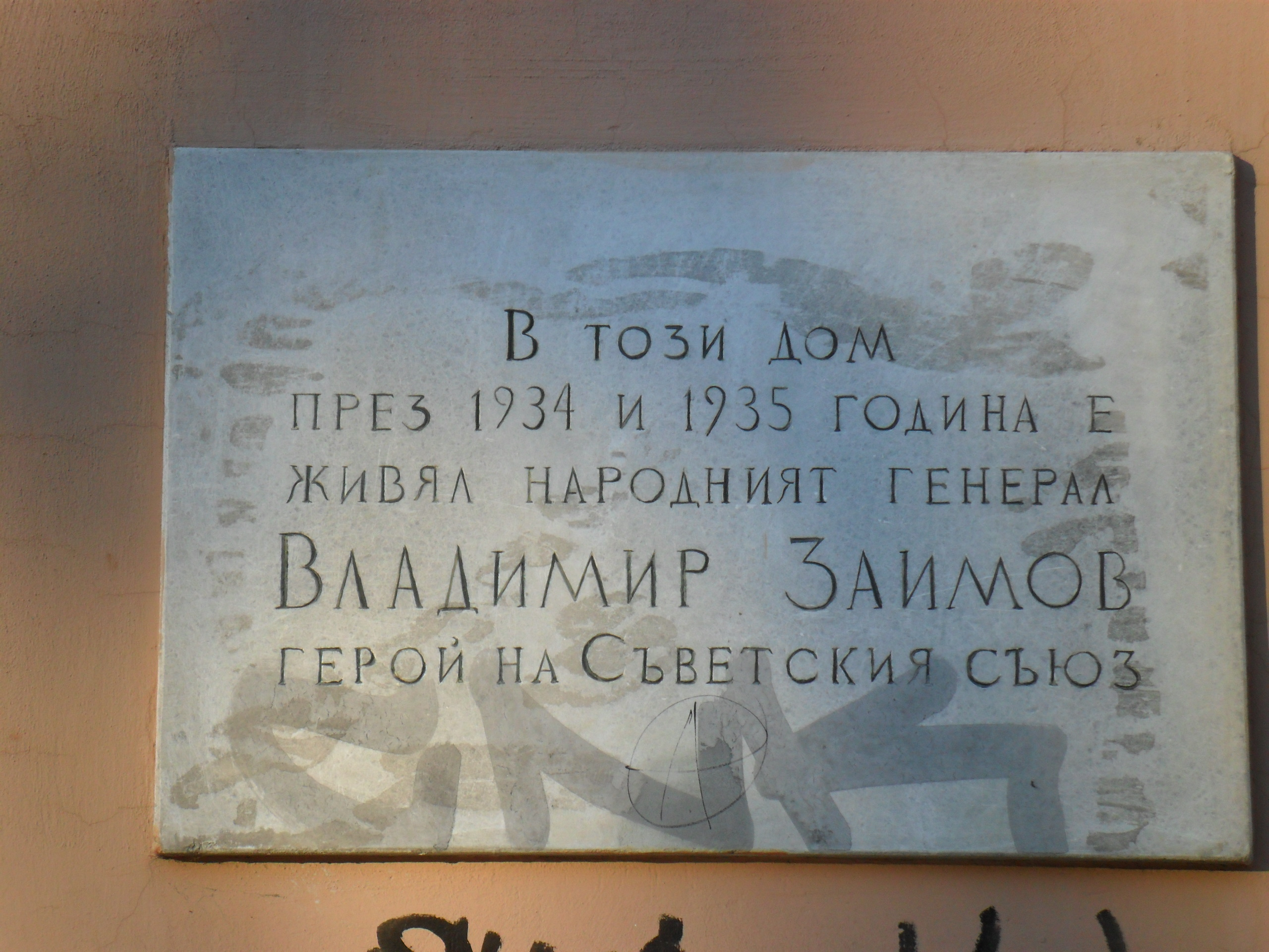 Plaque on the wall of the house in Shoumen,where lived Vladimir Zaimov